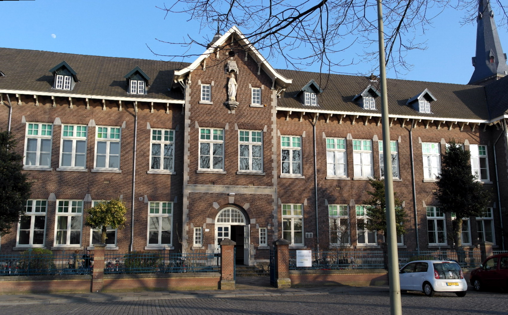 Wyck-Maastricht, Netherlands. View of the annex building of the Maastricht Conservatory of Music on Franciscus Romanusweg. The building was formerly a Catholic girls school run by the Sisters Franciscanessen van Heythuysen. Their monastery, now a music school, was at the back.